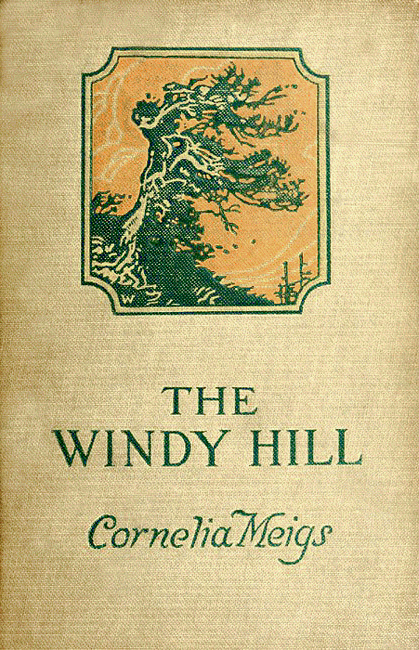 cover page--from scan of book The Windy Hill (1921) by Cornelia Meigs; illustrator probably Edward C. Caswell; cover decorator unknown.